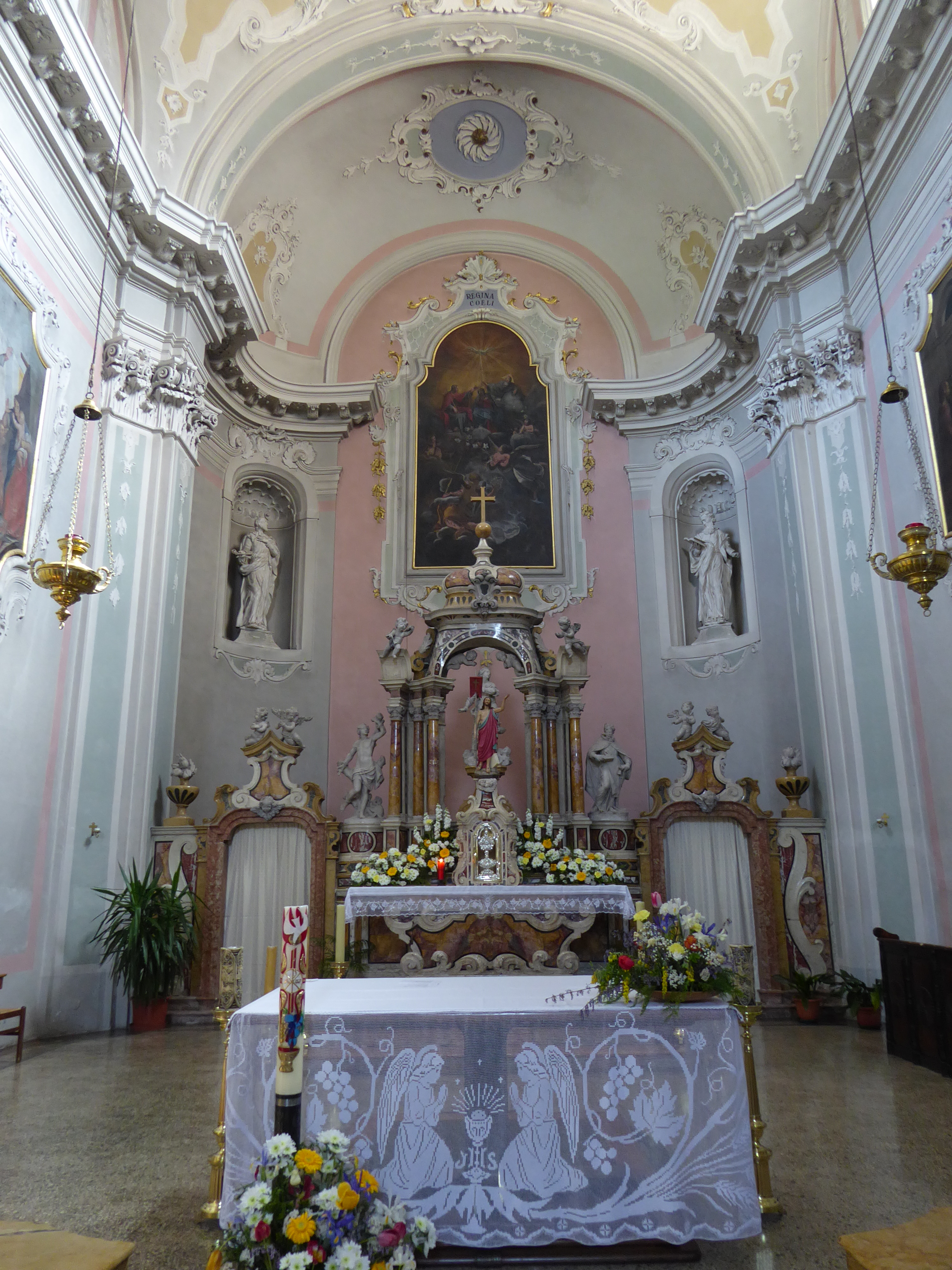 Verla (Giovo, Trentino, Italy) - Church of the Assumption - Presbyterium